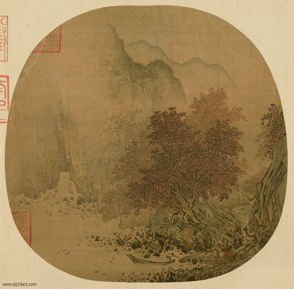 Xiao Zhao Mangrove Tree near the Mountain, 12th century, Liaonin Provincial Museum